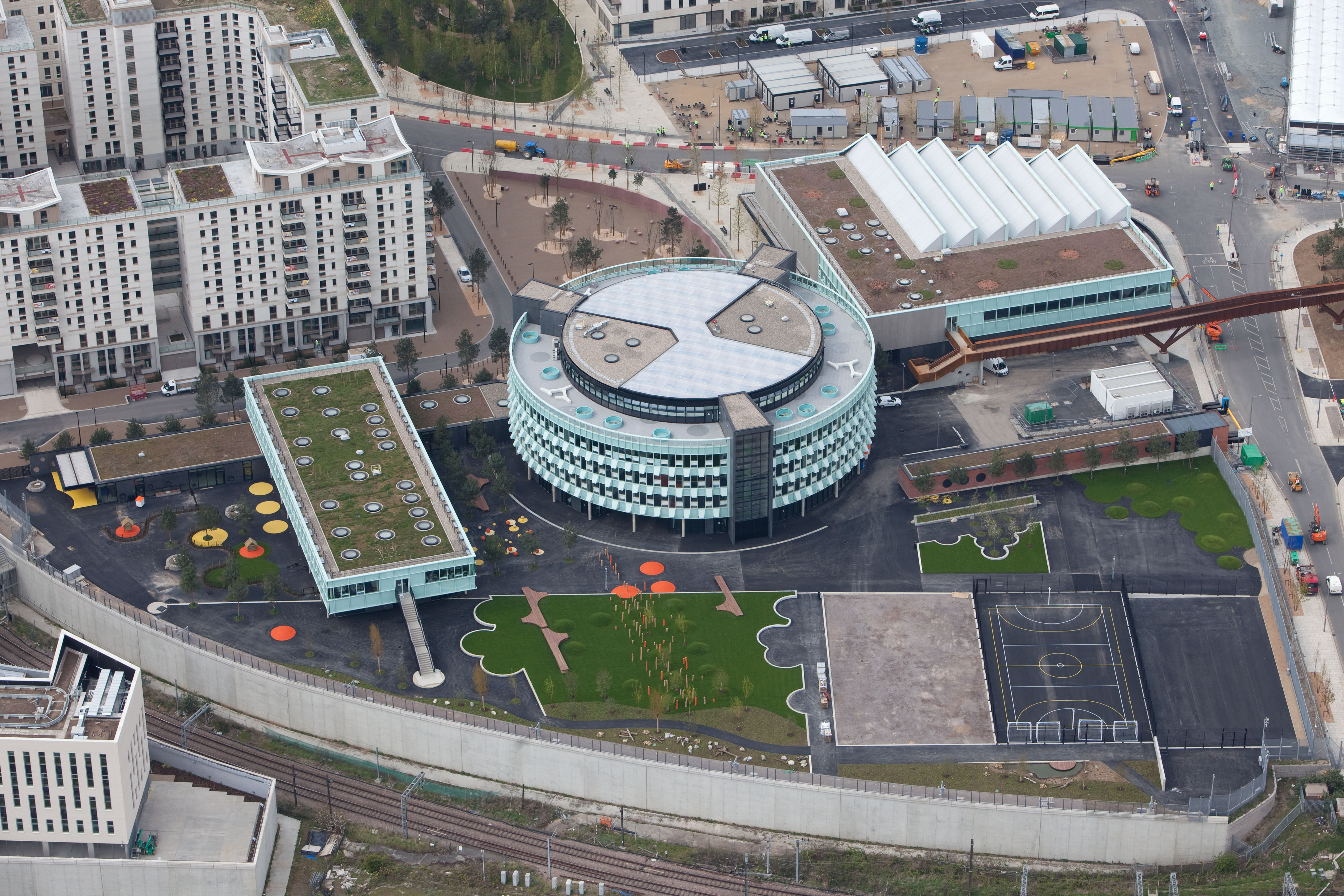 Aerial view of the Olympic Park — showing the Chobham Academy next to the Olympic and Paralympic Village. Picture taken on 16 April 2012.